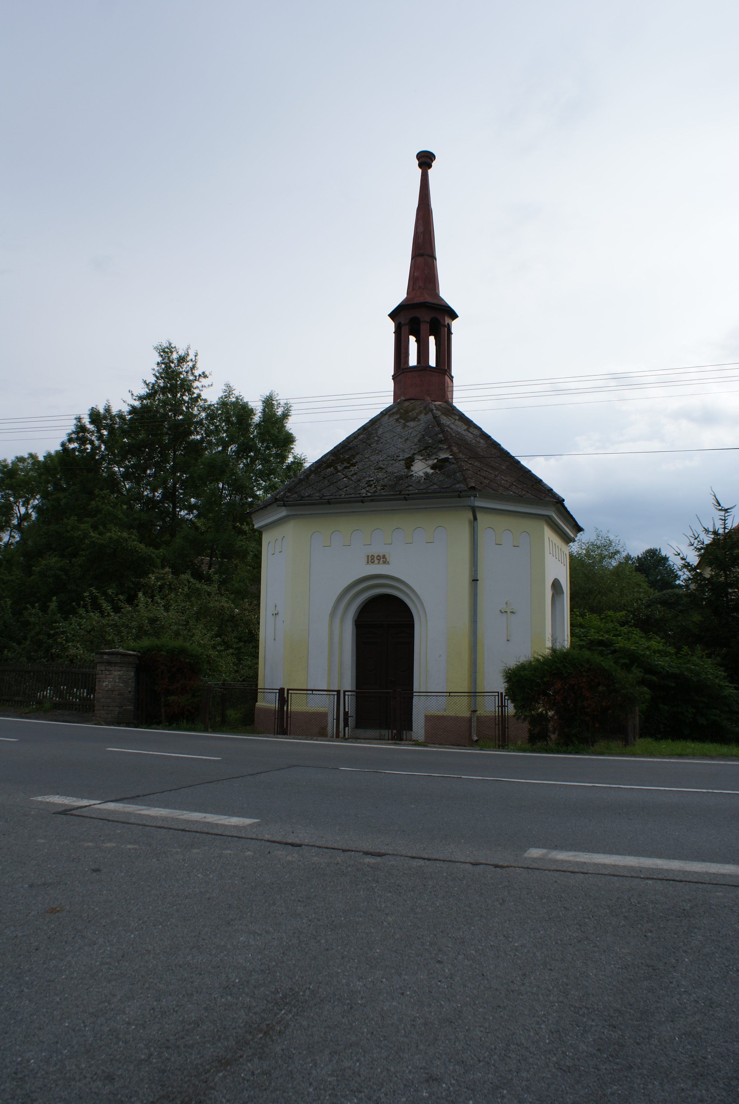 Chocenice, a village in Plzeň-South District, Czech Rep., a chapel.